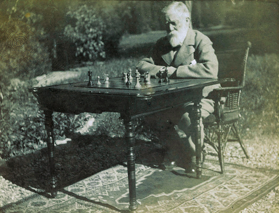 Willard Fiske Playing Chess on the Terrace of the Villa Landor.